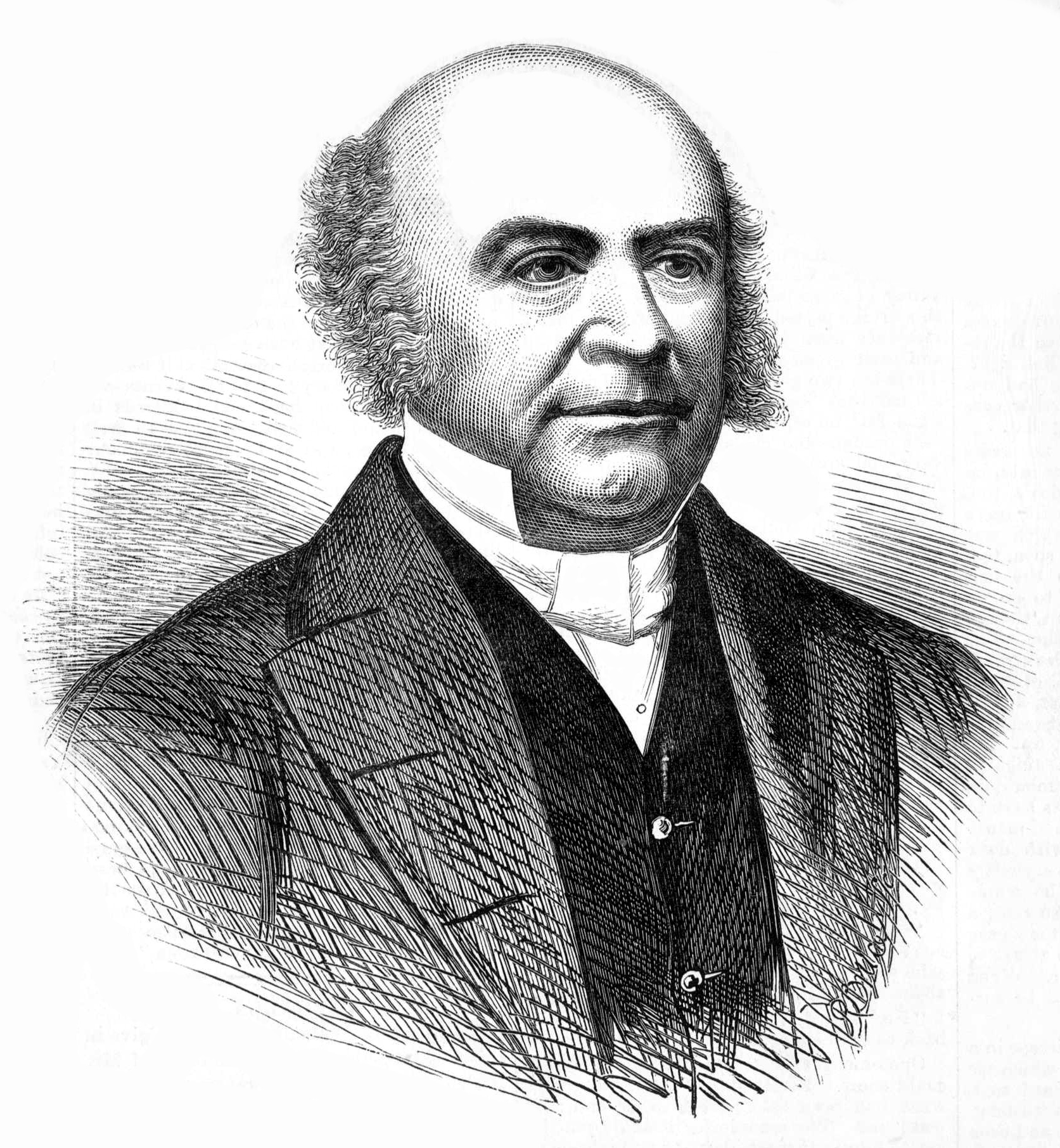 Portrait of James Frederick Palmer (1803–1871)